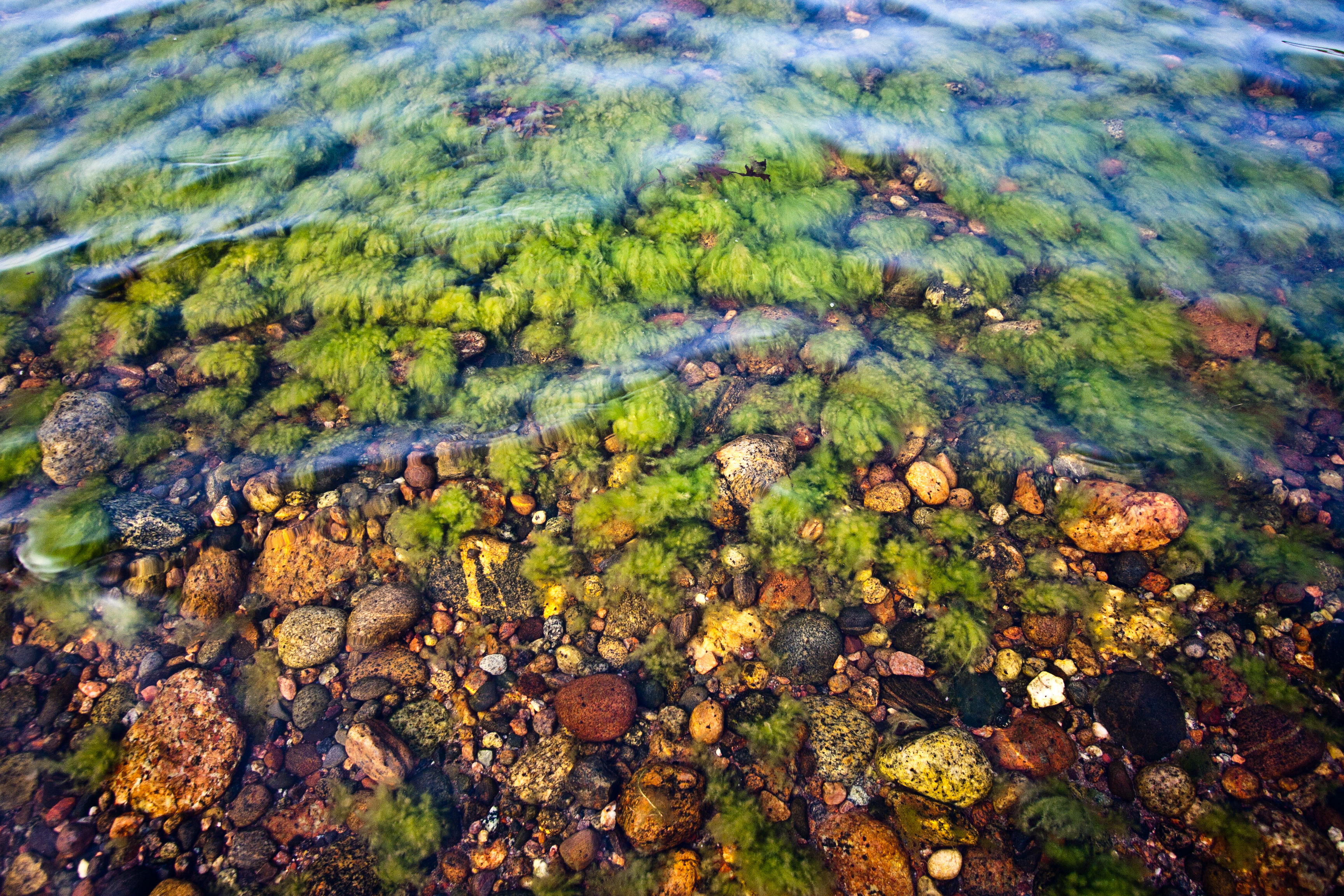 Alga in low water